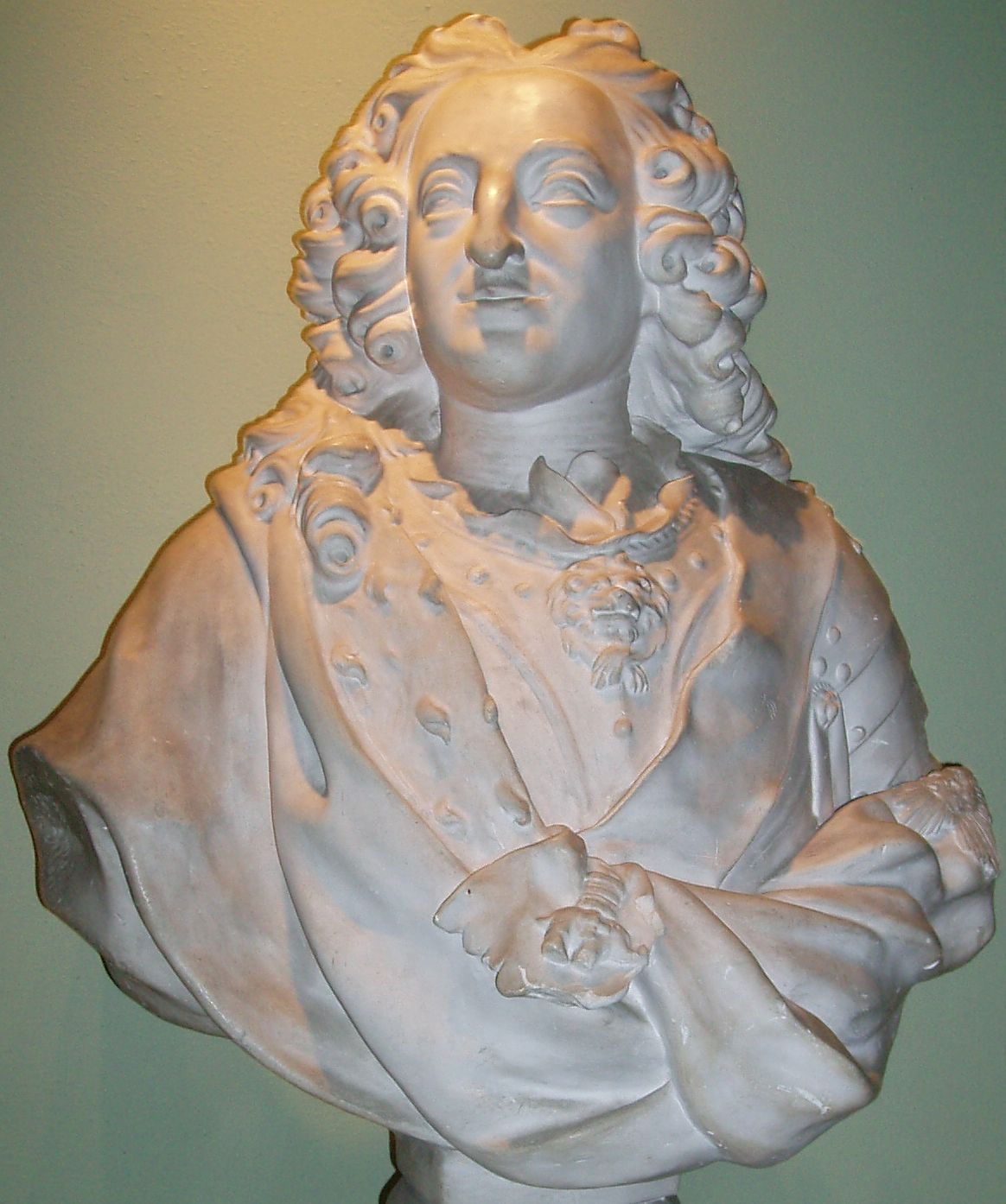 Gypsum bust of King Christian VI of Denmark.